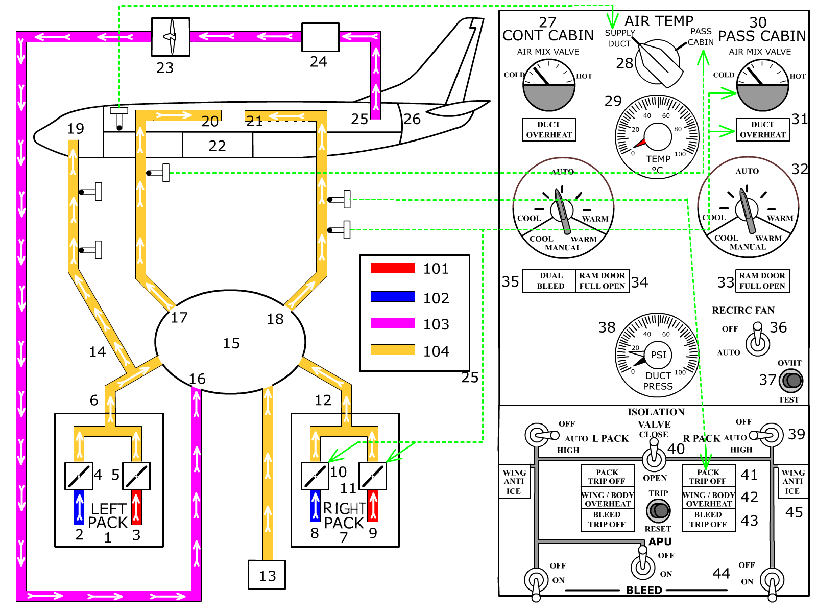 aircraft - air conditioning